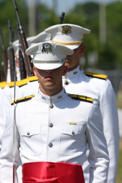 Members of the Texas A&M Ross Volunteers prepare for a 21-gun salute while visitors learn about the M1 Abrams tank (background) during the inaugural Texas Weekend of Remembrance here, May 26. The weekend-long event was held in order to honor those military members who paid the ultimate sacrifice.